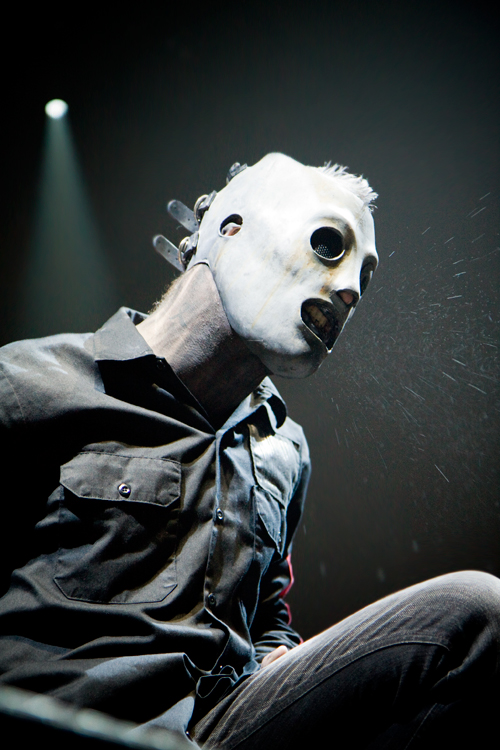 Vocalist Corey Taylor of Slipknot performing at the Allstate Arena in 2009.